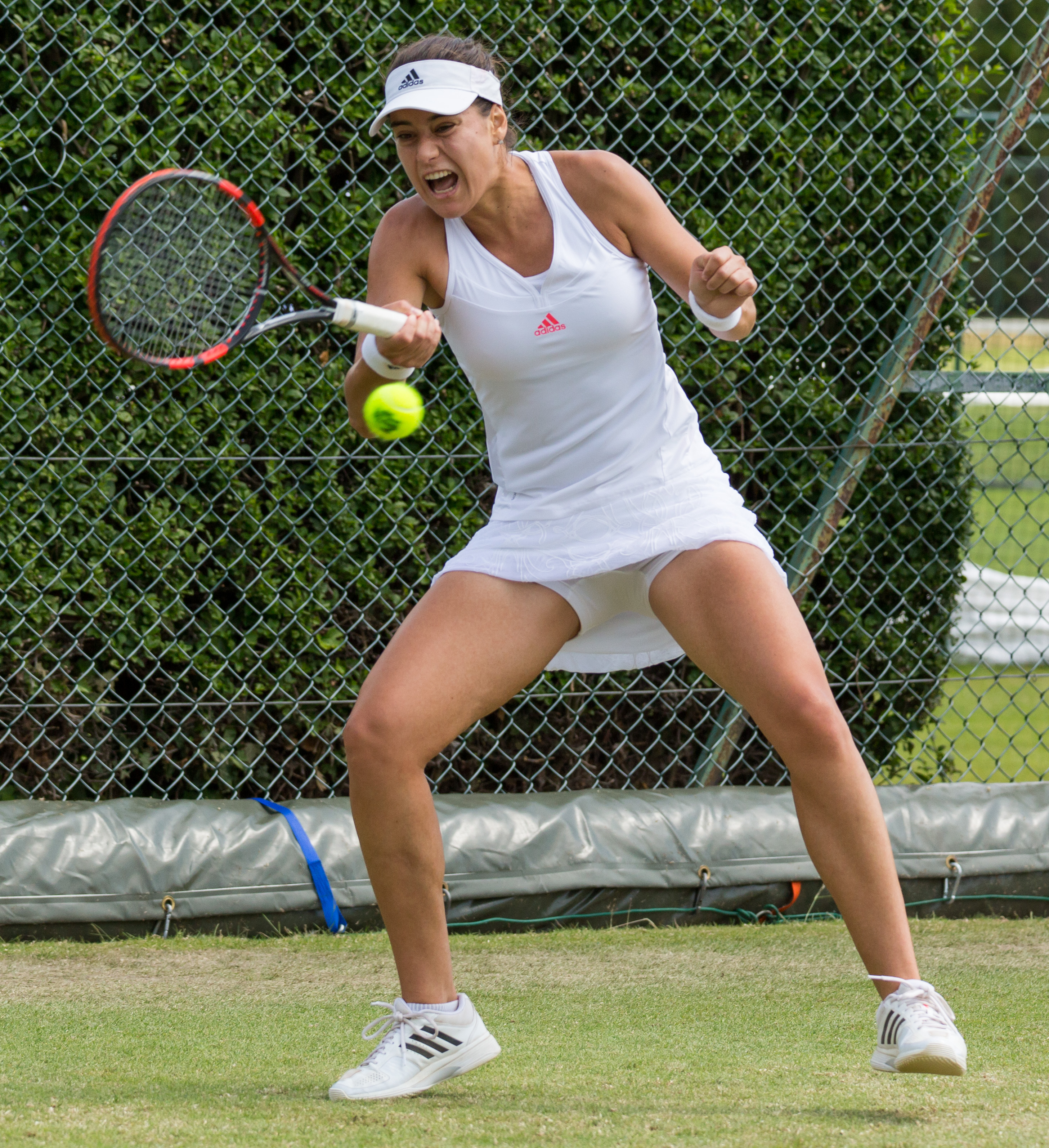 Sorana Cîrstea competing in the second round of the 2015 Wimbledon Qualifying Tournament at the Bank of England Sports Grounds in Roehampton, England. The winners of three rounds of competition qualify for the main draw of Wimbledon the following week.